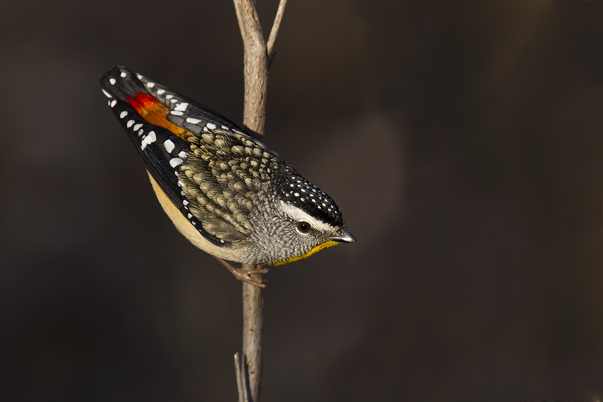 Strangways, Vic.